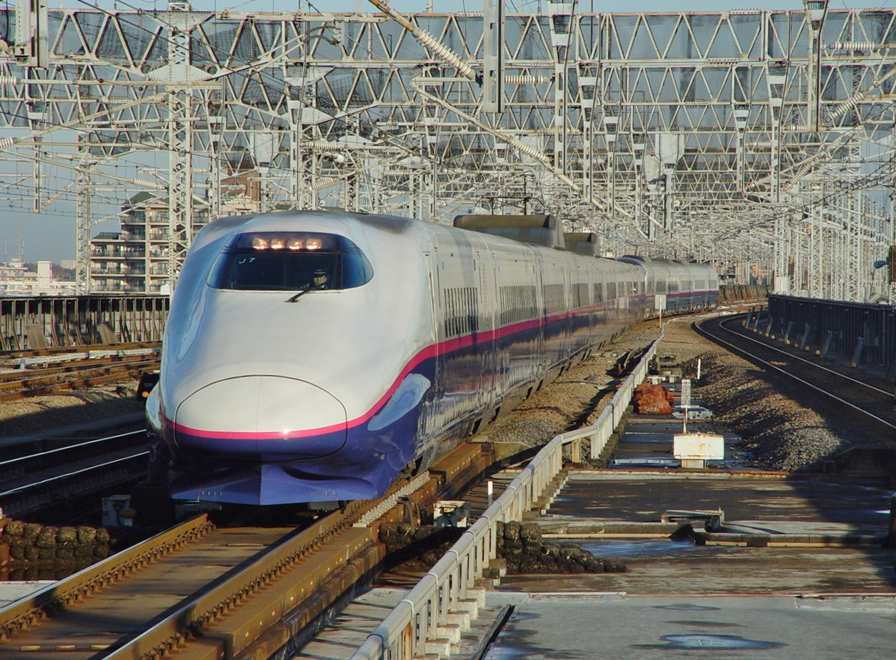 JR East E2 series shinkansen set J7 heading the southbound Yamabiko 152 service into Omiya